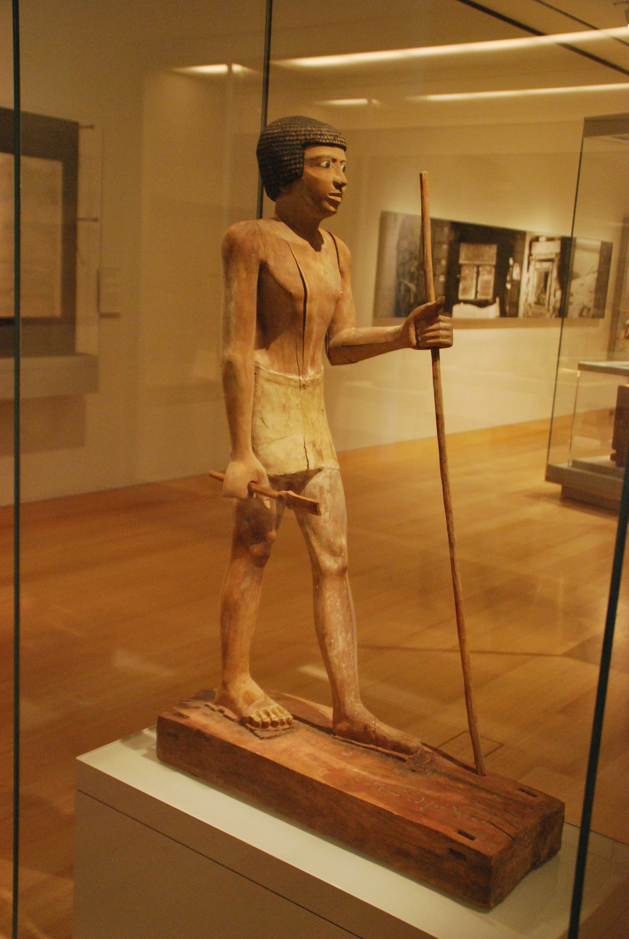 Wooden Statue of Wepwawetemhat; Egyptian, First Intermediate to Middle Kingdom, probably l, 2140–1991 B.C.; found at Asyut, Egypt: tomb 14. 1903: excavated by Emile Gaston Chassinat and Charles Palanque for the Institut francais d'archeologie orientale, Cairo; 1904: purchased for the MFA by Albert M. Lythgoe; Length x width x height: 71.1 x 23.1 x 112 cm (28 x 9 1/8 x 44 1/8 in.); today at the "Stanford and Norma Jean Calderwood Gallery" of the Museum of Fine Arts, Boston, Accession Number 04.1780; more Informations.